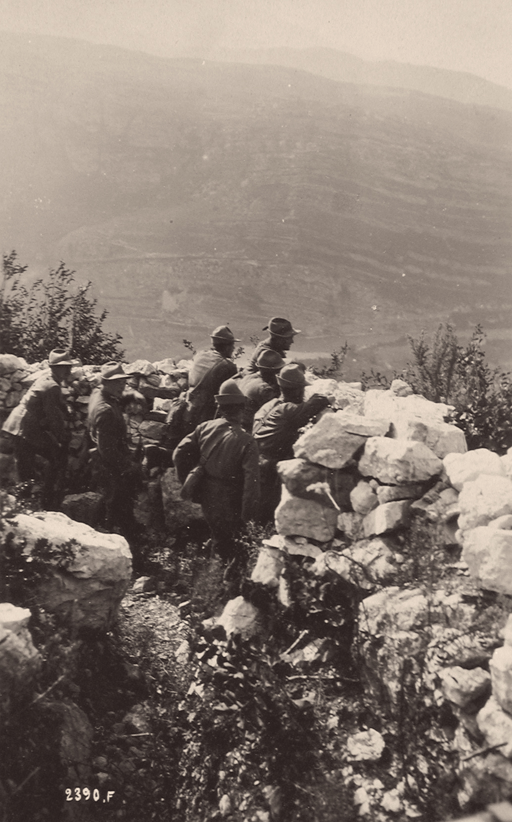 World War 1 - Italian Army: Monte Corno Alpini in the frontline trenches